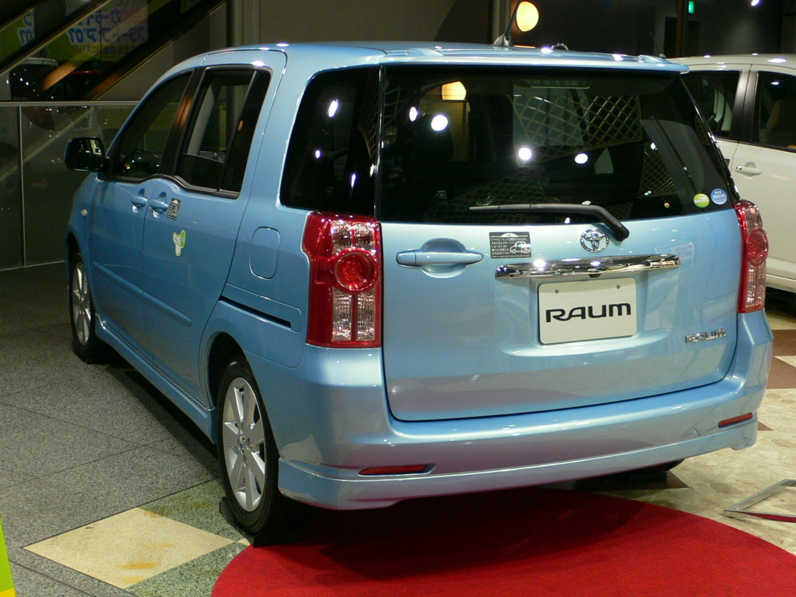 2nd Toyota_Raum(2006)(S-Package) photographed in Showroom of Toyota-AMLUX